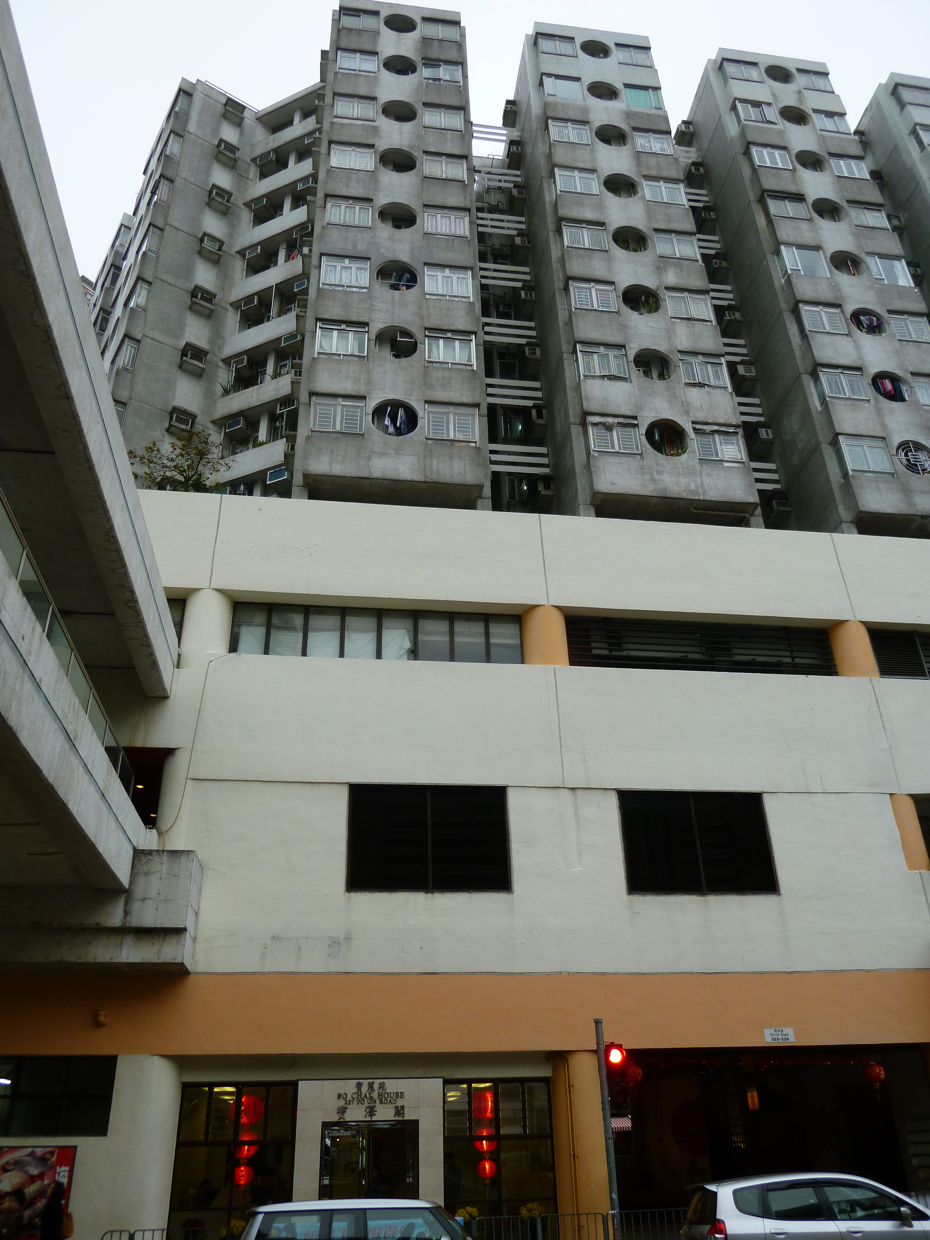 Po Lai Court (Cheung Sha Wan, Kowloon, Hong Kong)